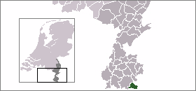 Location of Vaals